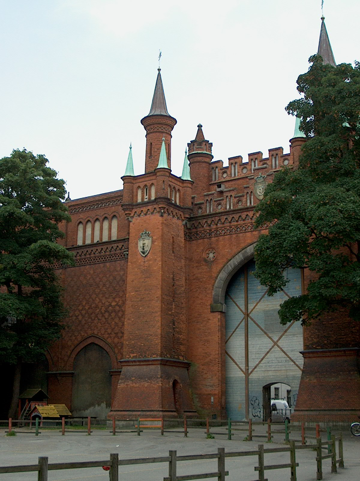 The Shooting Range Wall in the Vesterbro district of Copenhagen, Denmark